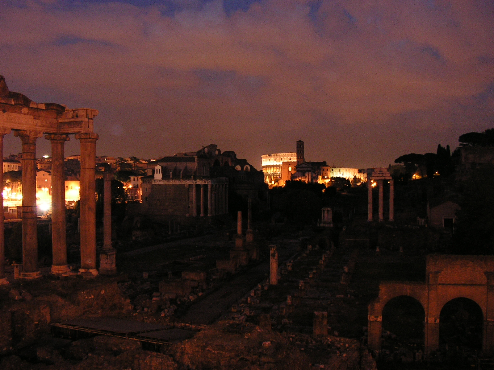 Rome - Forum Romanum at night.